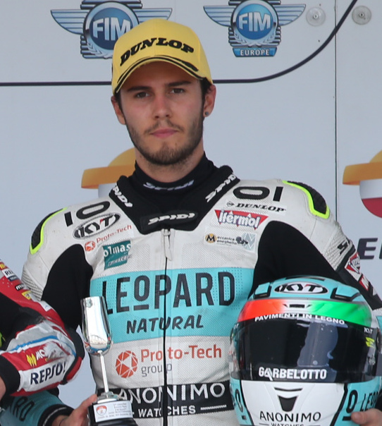 Manuel Pagliani on the podium of the 2018 CEV Moto3 Jerez race 2.